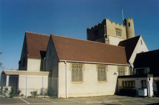 St Alban's parish church, Burgess Road, Swaythling, Hampshire, seen from the southwest